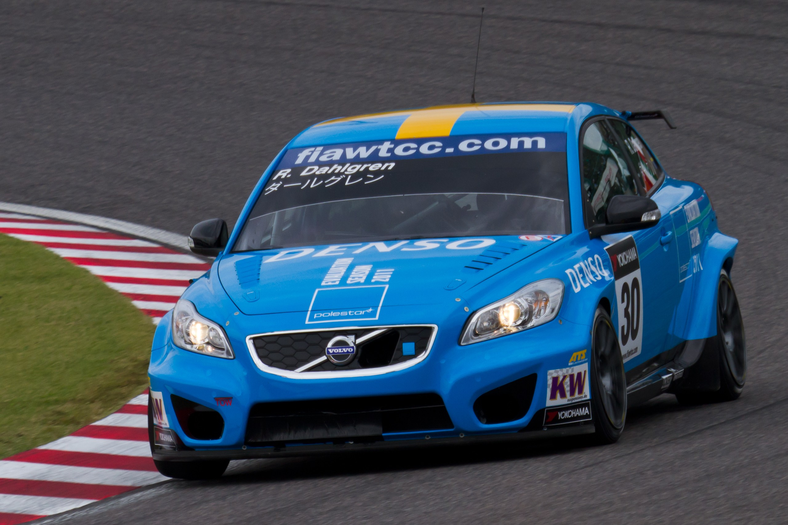 World Touring Car Championship 2011 Race of Japan: Robert Dahlgren (Polestar Racing) during the qualify session on Saturday.